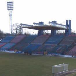 Szczecin City Stadium